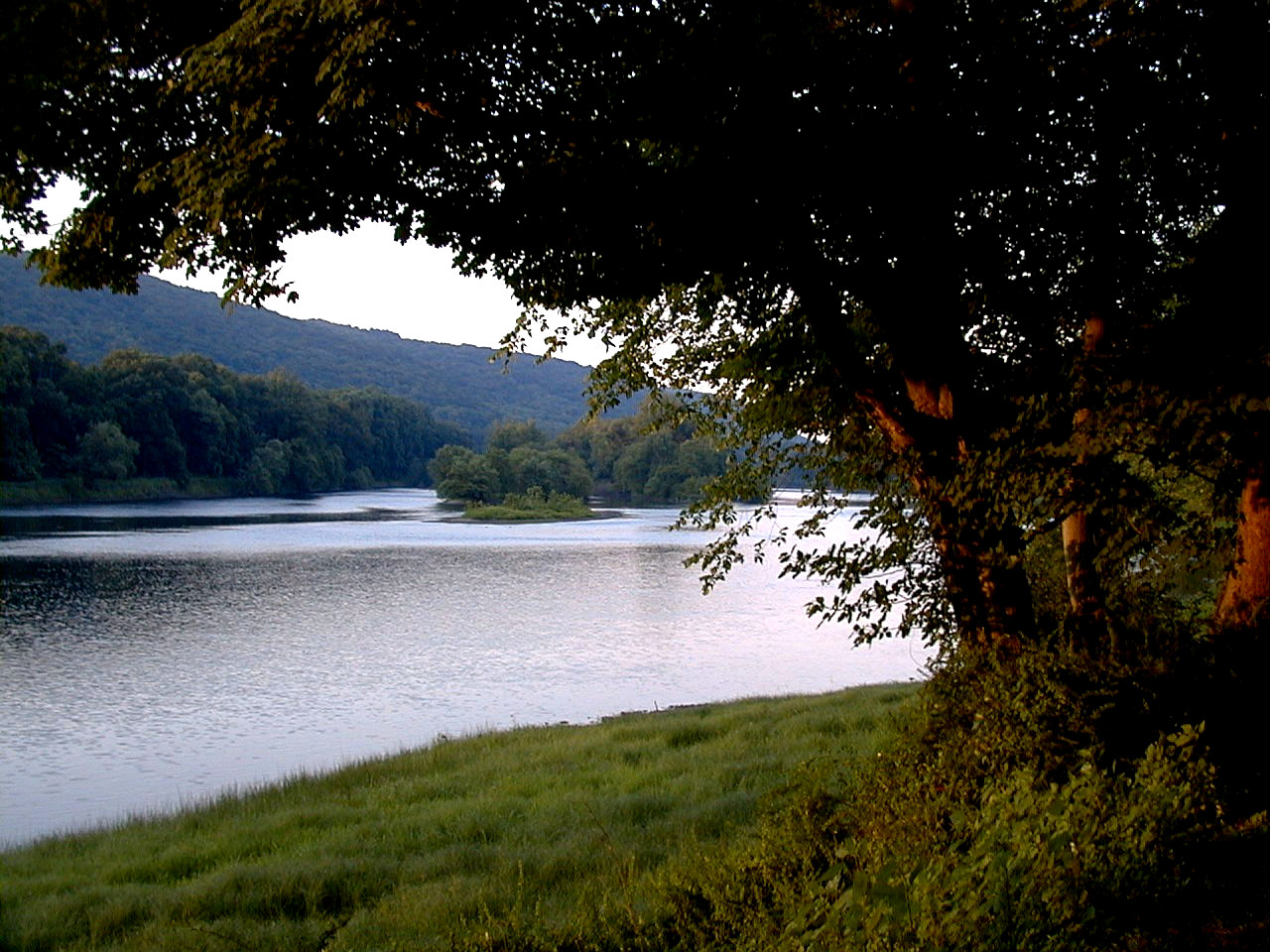 Worthington State Park taken from a campsite on the Delaware River